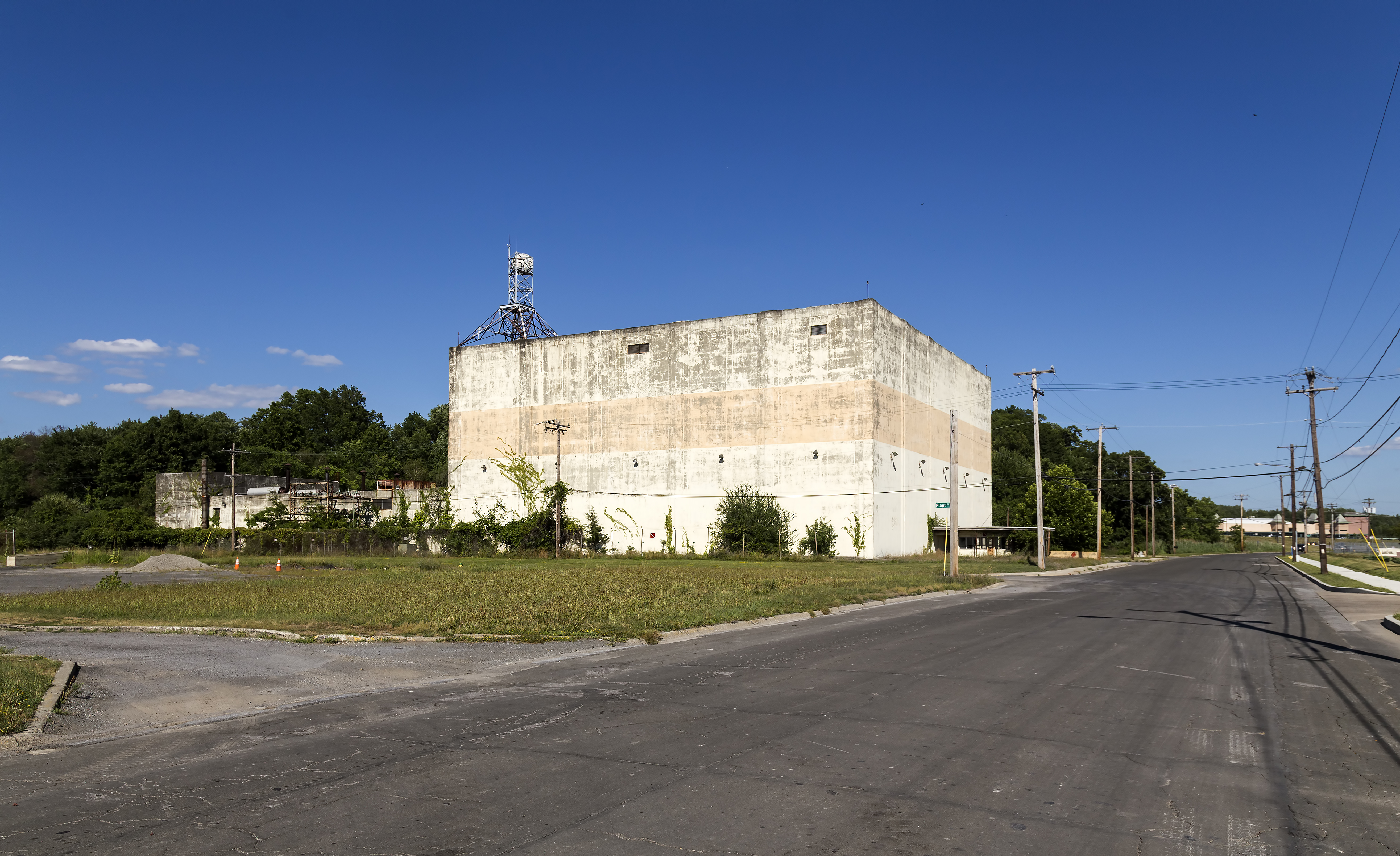 The abandoned former SAGE direction center at the former Stewart Air Force Base, Newburgh, New York, USA, now Stewart International Airport.